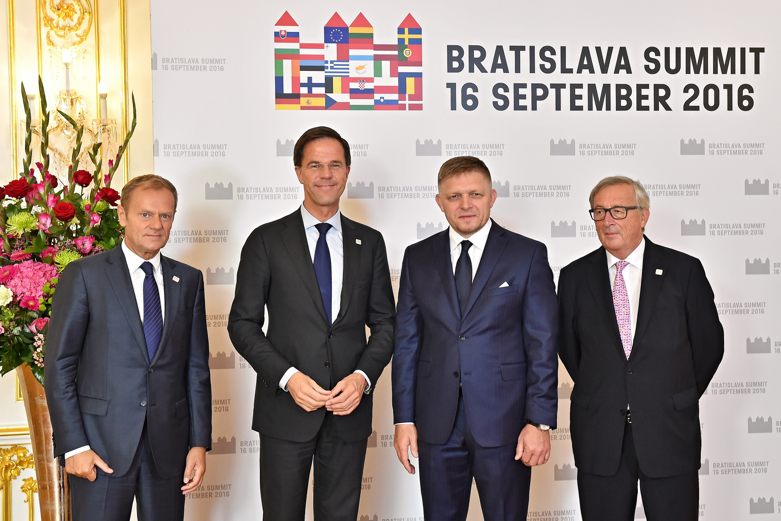 HANDSHAKE - BRATISLAVA SUMMIT 16. SEPTEMBER 2016. Donald Tusk, European Council, President - Mark Rutte, Netherlands, Prime Minister - Róbert Fico, Slovakia, Prime Minister- Jean-Claude Juncker, European Commission, President Photo Rastislav Polak